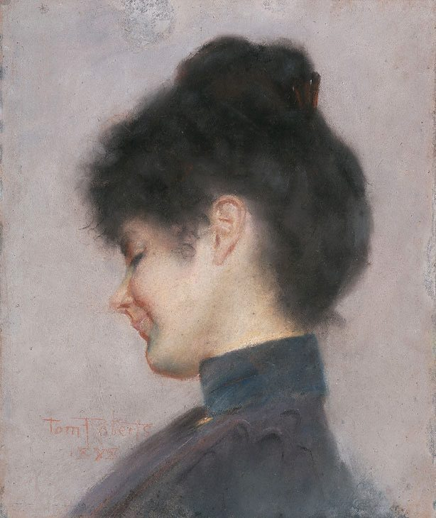 Miss Florence Geaves